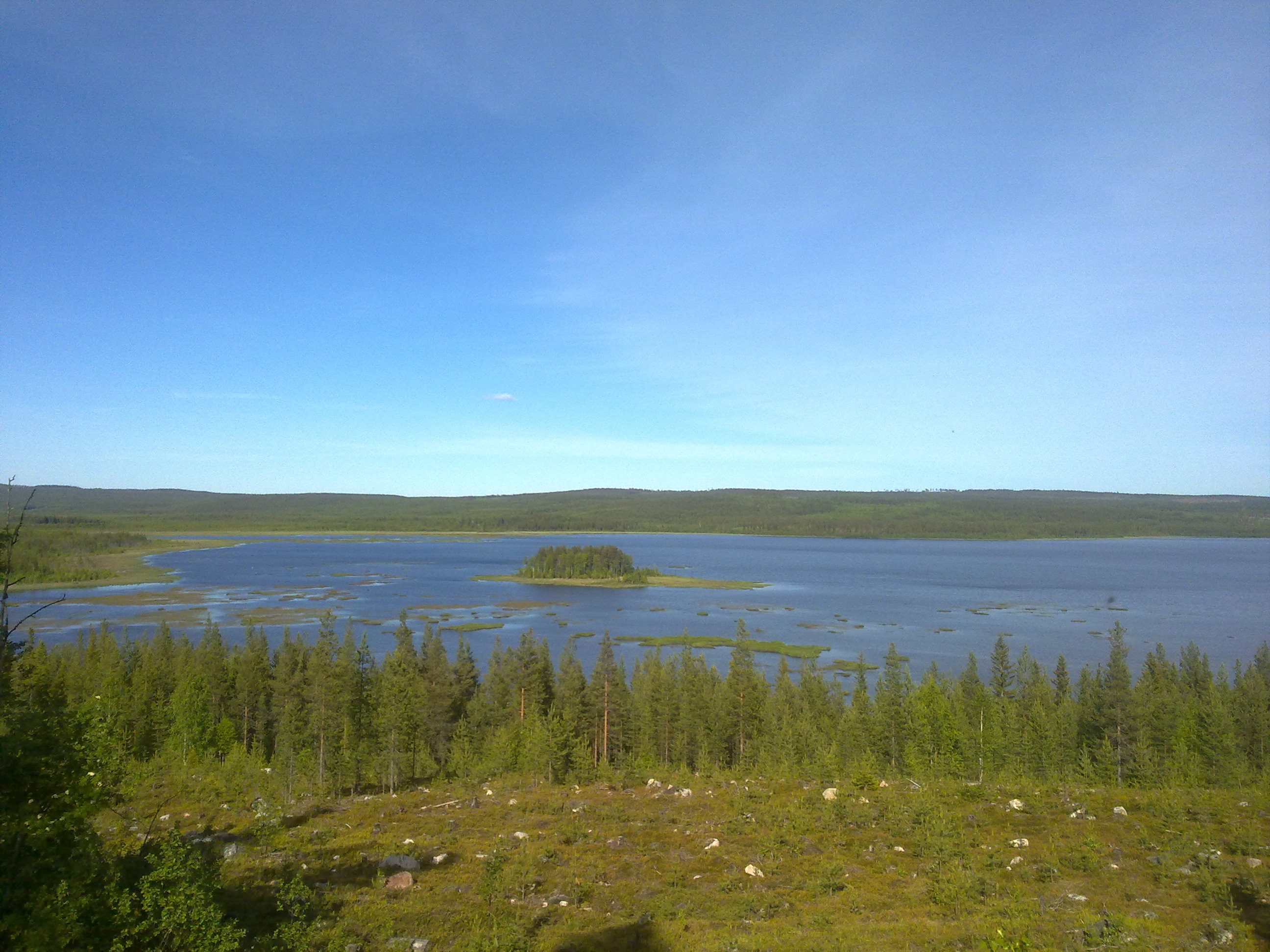 A view to the Lake Paamajärvi in Pello, Finland, from the hill of Paamavaara.